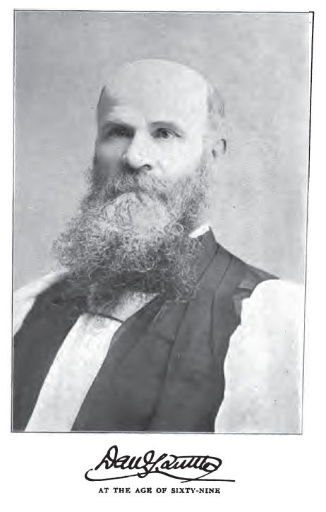 Portrait of Bishop Daniel Sylvester Tuttle from frontpiece of Reminiscences of a Missionary Bishop, 1906